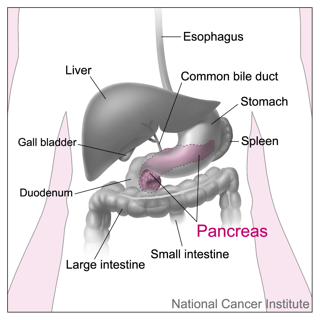 Title Pancreas and Nearby Organs Description The pancreas and nearby organs and structures in the digestive tract (esophagus, liver, common bile duct, stomach, spleen, gall bladder, duodenum, small intestine, and large intestine). Topics/Categories Anatomy -- Digestive/Gastrointestinal System Type Color, Medical Illustration Source National Cancer Institute